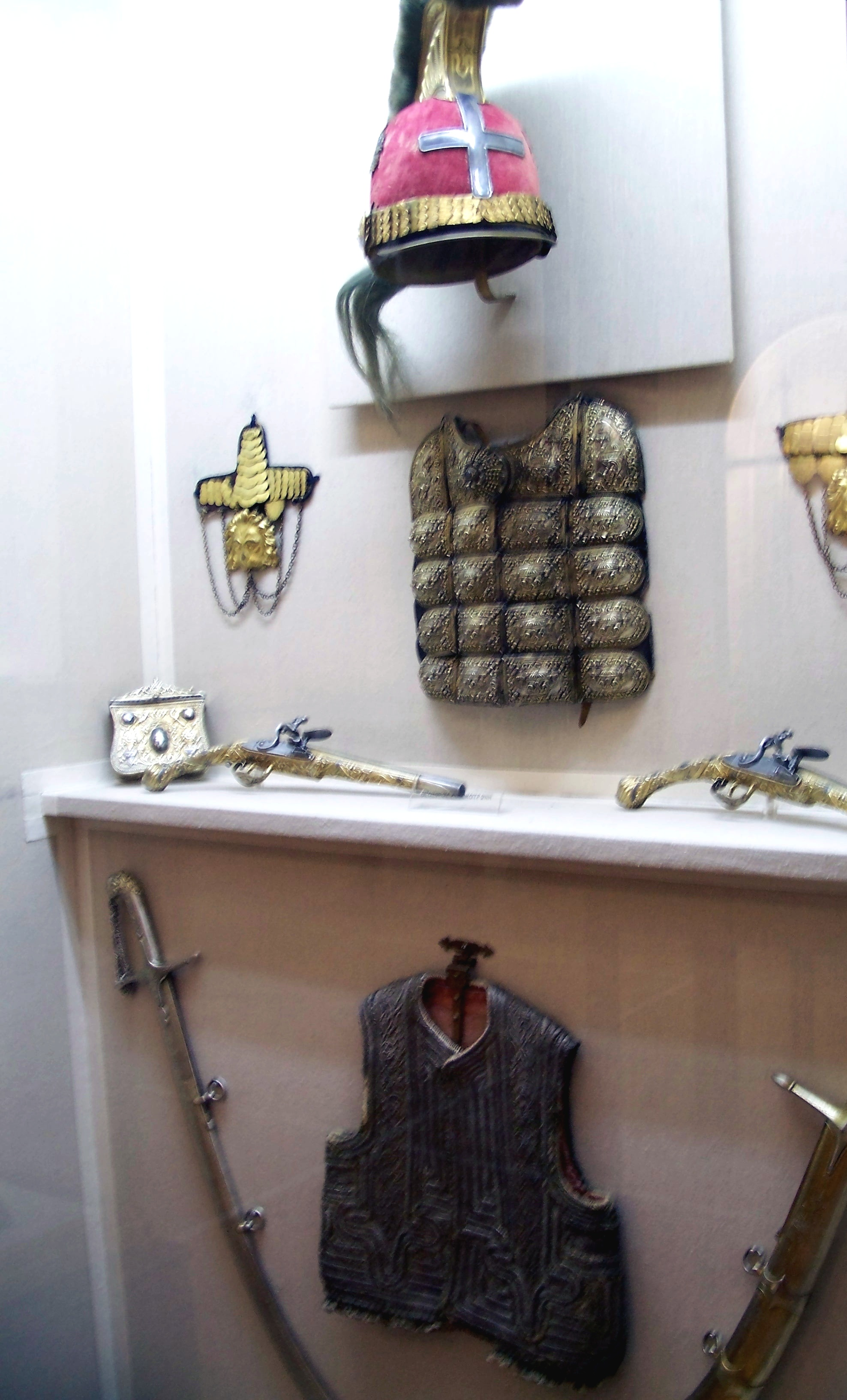 Some of the weapons and the combat equipment of greek revolutionary Theodoros Kolokotronis (Θεόδωρος Κολοκοτρώνης). National Historical Museum, Athens, Greece.